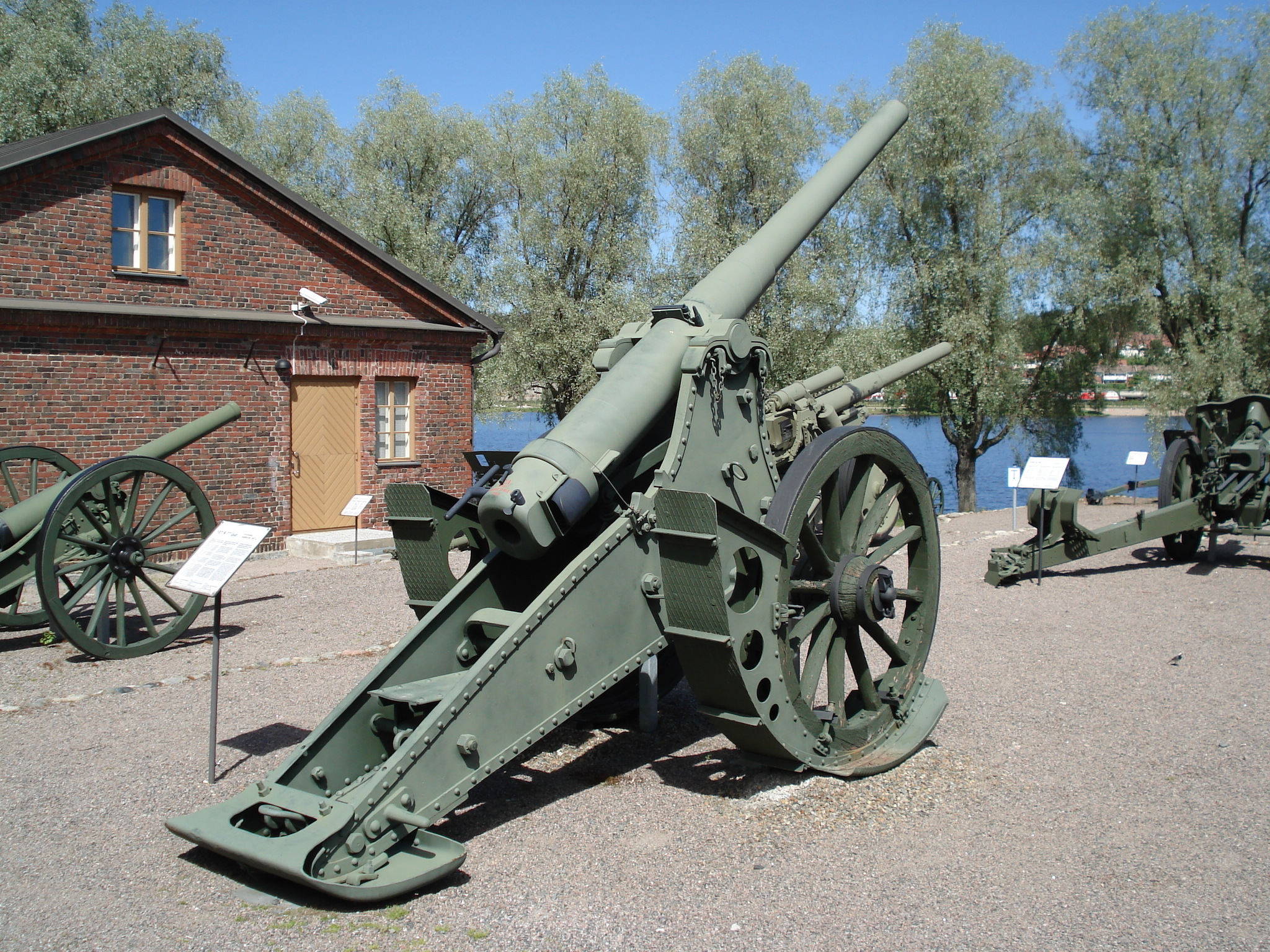 Russian Model 1877 107 mm (42 line) siege gun, displayed in Hämeenlinna Artillery Museum. Barrel of this gun manufactured by Obukhov in 1884, gun carriage manufactured in 1882. Guns of this type captured and used by the Finnish army were last fired in combat in 1942. Description: [1] Photo taken on June 18, 2006. Source: Photo by me, User:Balcer.